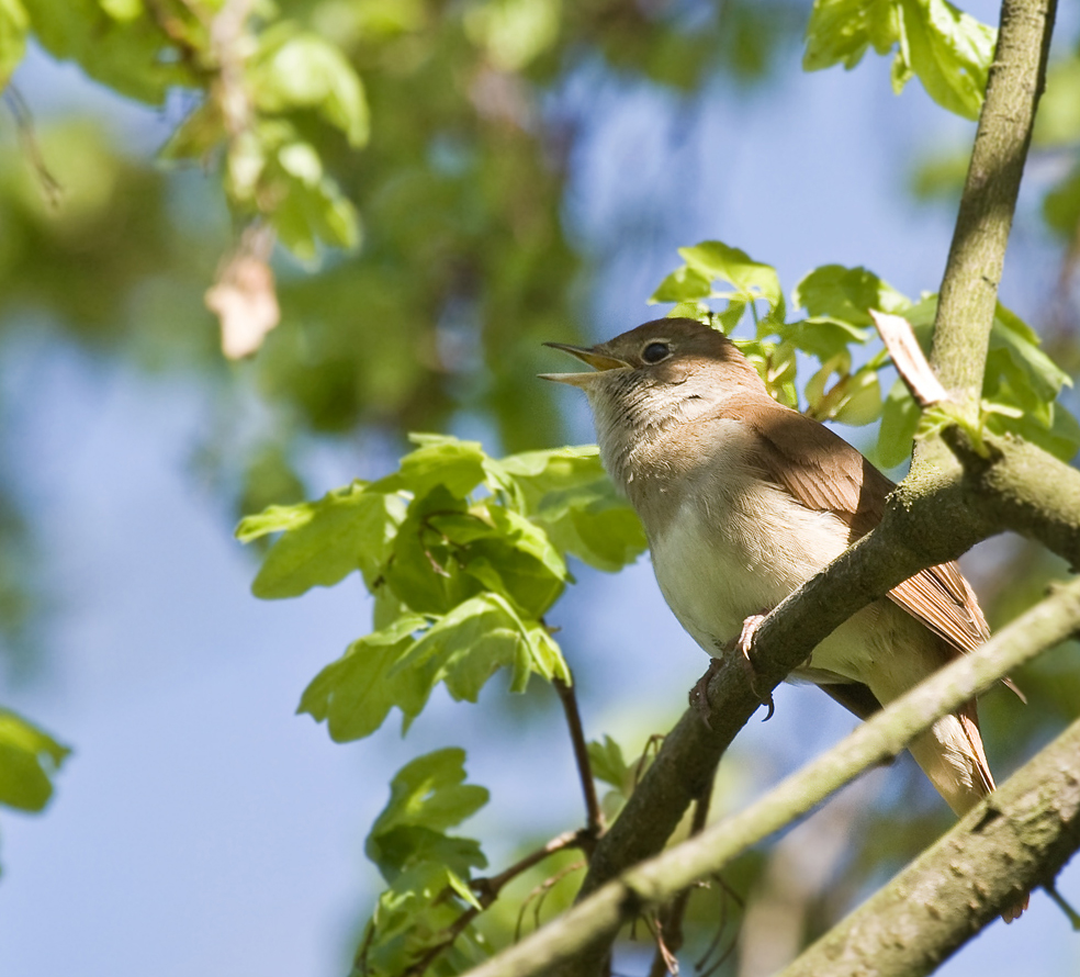 Singing Nightingale (Luscinia megarhynchos), in Berlin, Germany